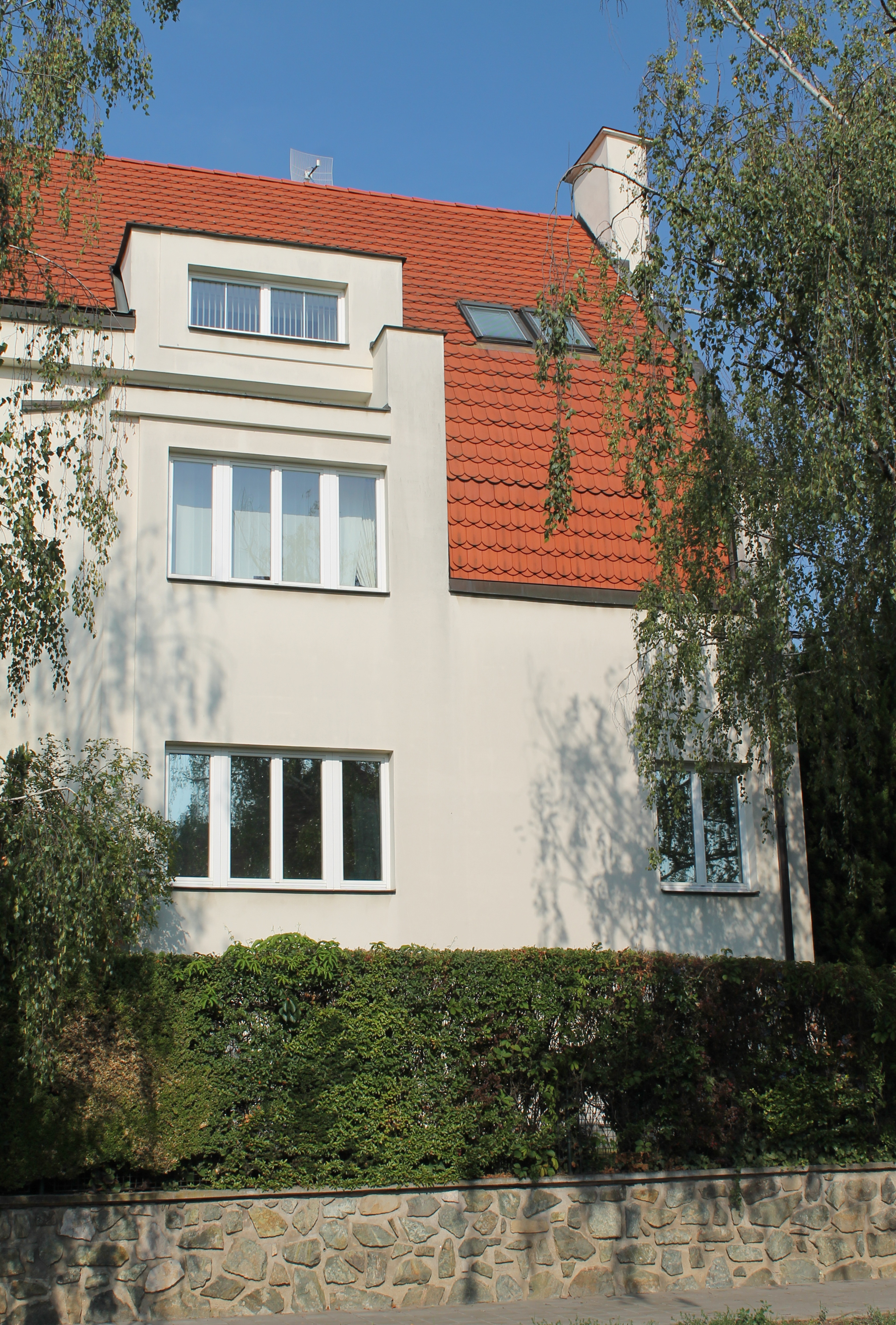 Villa Pavlíček - Lerchova 301/9 / Mahenova 301/13, Stránice, Brno, Czech Republic